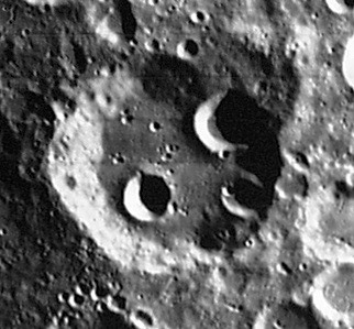 Mutus lunar crater - cropped Lunar Orbiter - IV image iv_082_h3.jpg